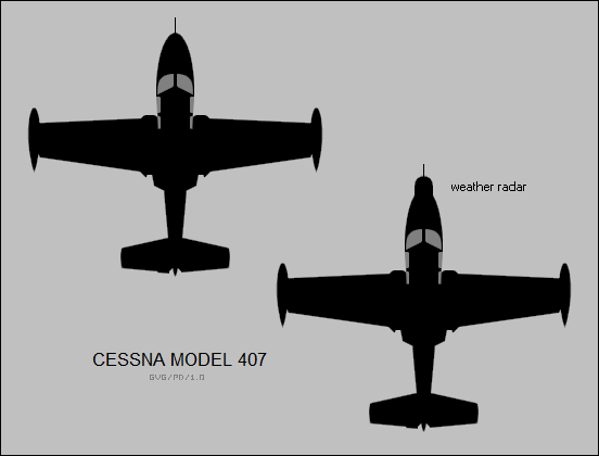 Cessna Model 407 proposal for a business jet version of the T-37 trainer.